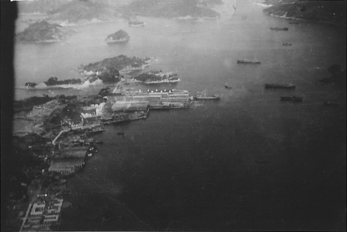 A personally taken photo of Nagasaki harbor on August 1st, 1945 by Flight Officer Bruce C. Saxton of the 7th Air Force, 11th Bomb Group, with the photo taken from a B-24 bomber. This photo was taken only eight days before the atomic bombing of the city itself. The photo was developed on November 26, 1945 and the writing on the back reads: "East toward Nagasaki". The date of the photo is from the mission, cataloged as on August 1st, 1945 in a mission log.